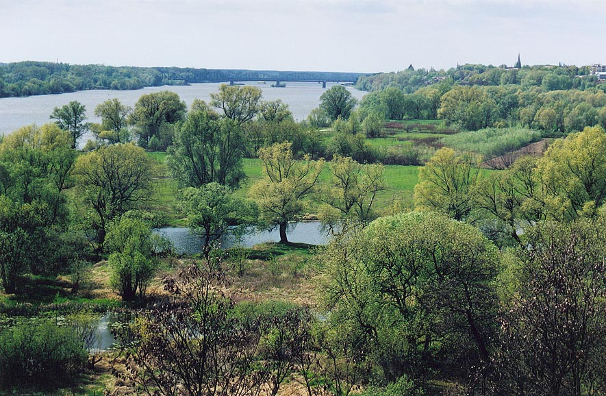 Wisła (Vistula) river near Toruń